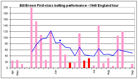 FC batting chart for Bill Brown (cricketer) during the 1948 tour of England. Blue line is an average for five most recent innings, blue dots are not outs. Bars are runs scored. Pink for FC, red for Tests